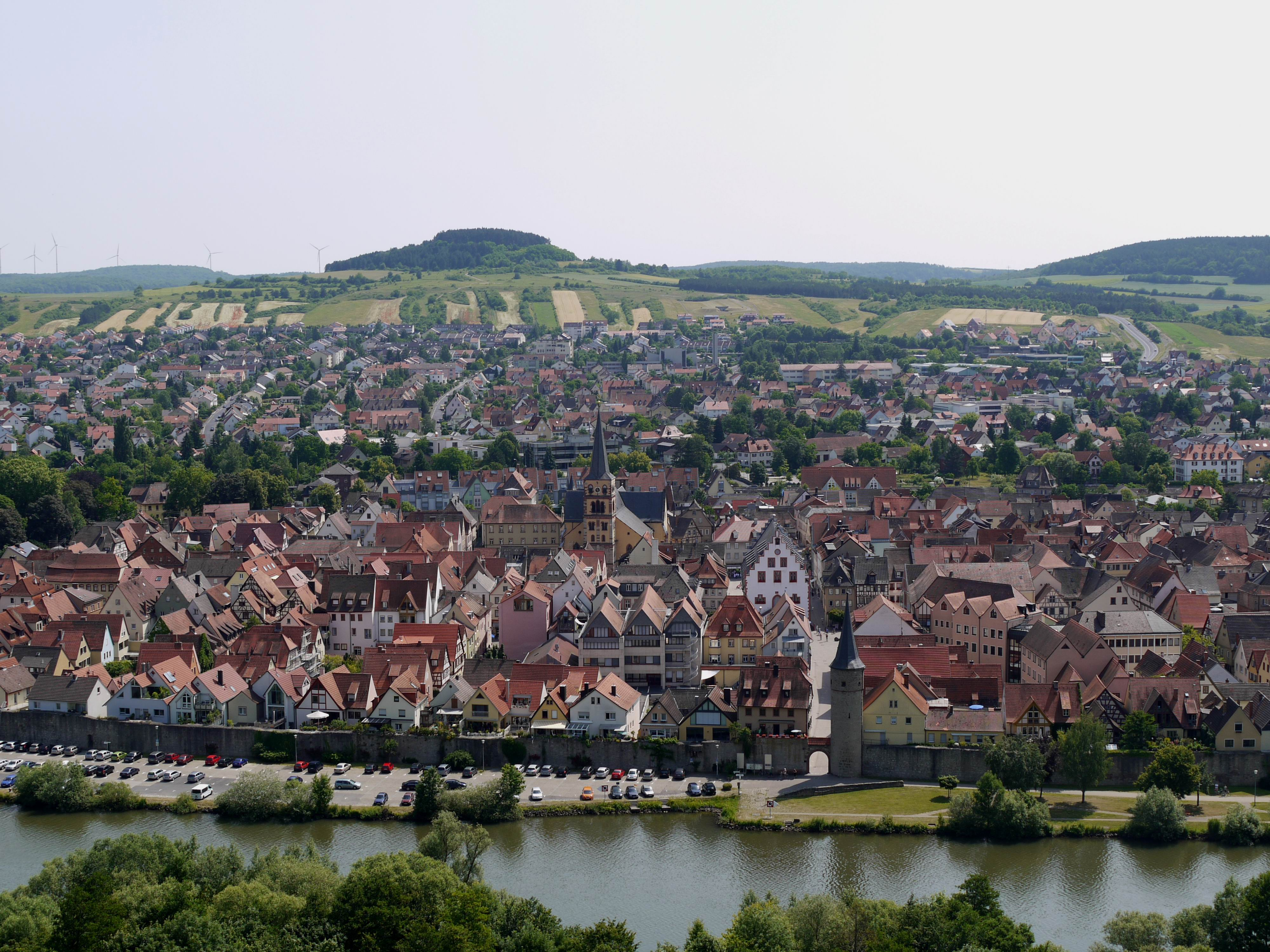 Karlstadt, view from the Karlsburg